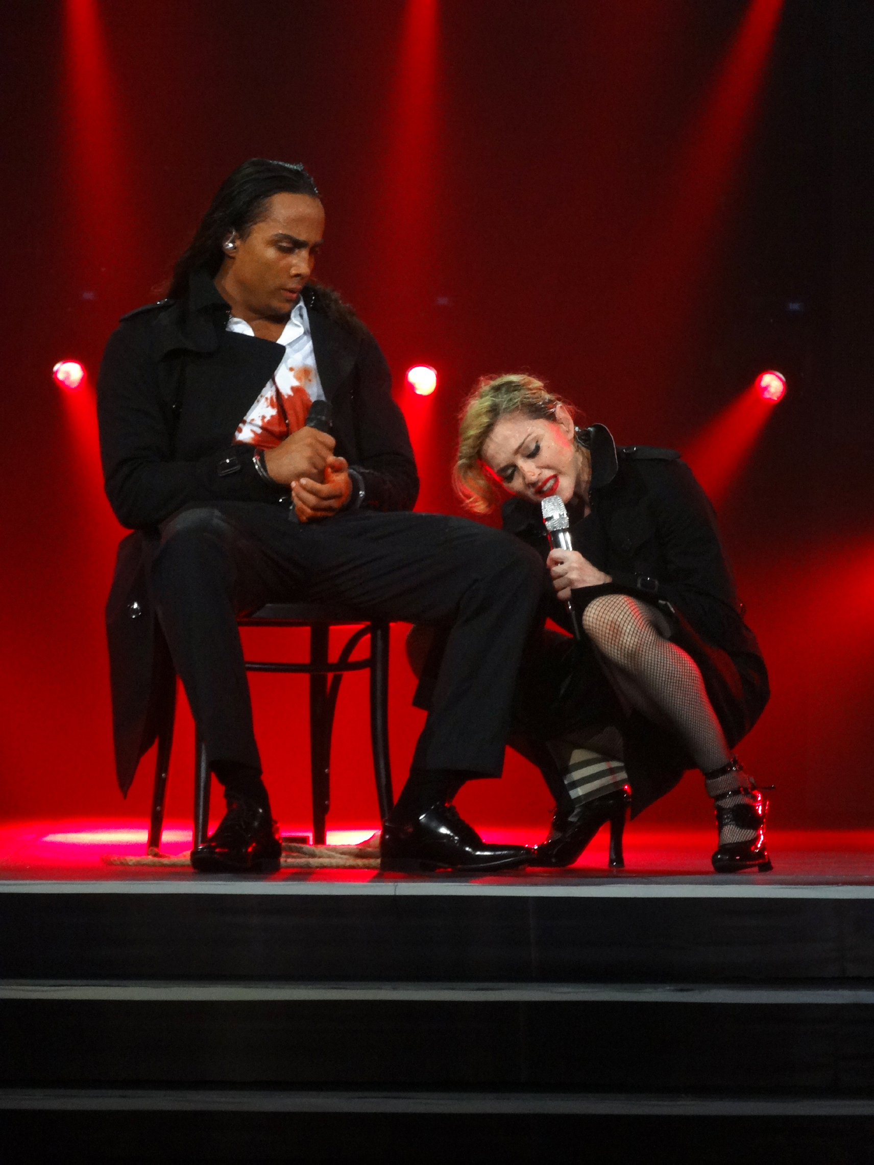 Madonna and dancer Marvin Gofin performing Jane Birkin's and Serge Gainsbourg's "Je t'aime... moi non plus" during her "MDNA à l'Olympia" showcase in Paris, France on July 26, 2012.